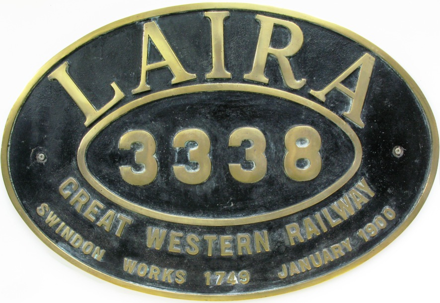 The original nampeplate from Great Western railway Bulldog Class locomotive 3338 Laira, before it was renumbered to 3326. It was named after the area of Plymouth, Devon, England, that was home to the company's new locomotive depot for that city. It was photographed in the railway museum at Buckfastleigh railway station.